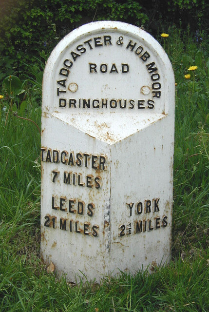 Milepost in Dringhouses. Milepost on Tadcaster Road, York, erected by the Hob Moor Lane End to Tadcaster Bridge Turnpike Trust